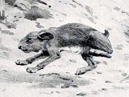 Life restoration of Pachyrukhos moyani from W.B. Scott's A History of Land Mammals in the Western Hemisphere. New York: The Macmillan Company.